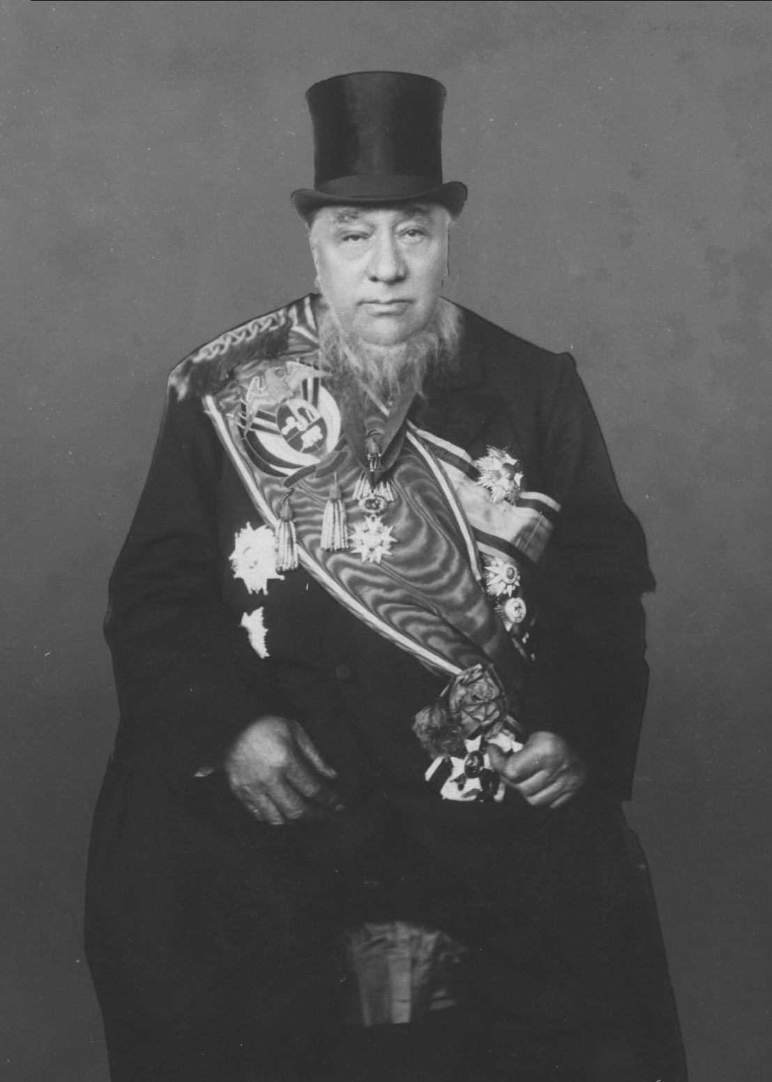 State President Paul Kruger of the South African Republic at his fourth inaguration in 1898